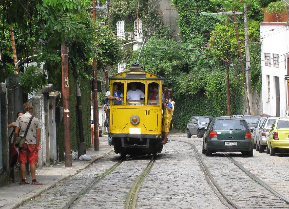 Santa Teresa Tram car 11, packed with a full load of passengers, climbing a steep section of Rua Joaquim Murtinho about 300 metres west of the junction with Rua Muratori, westbound.